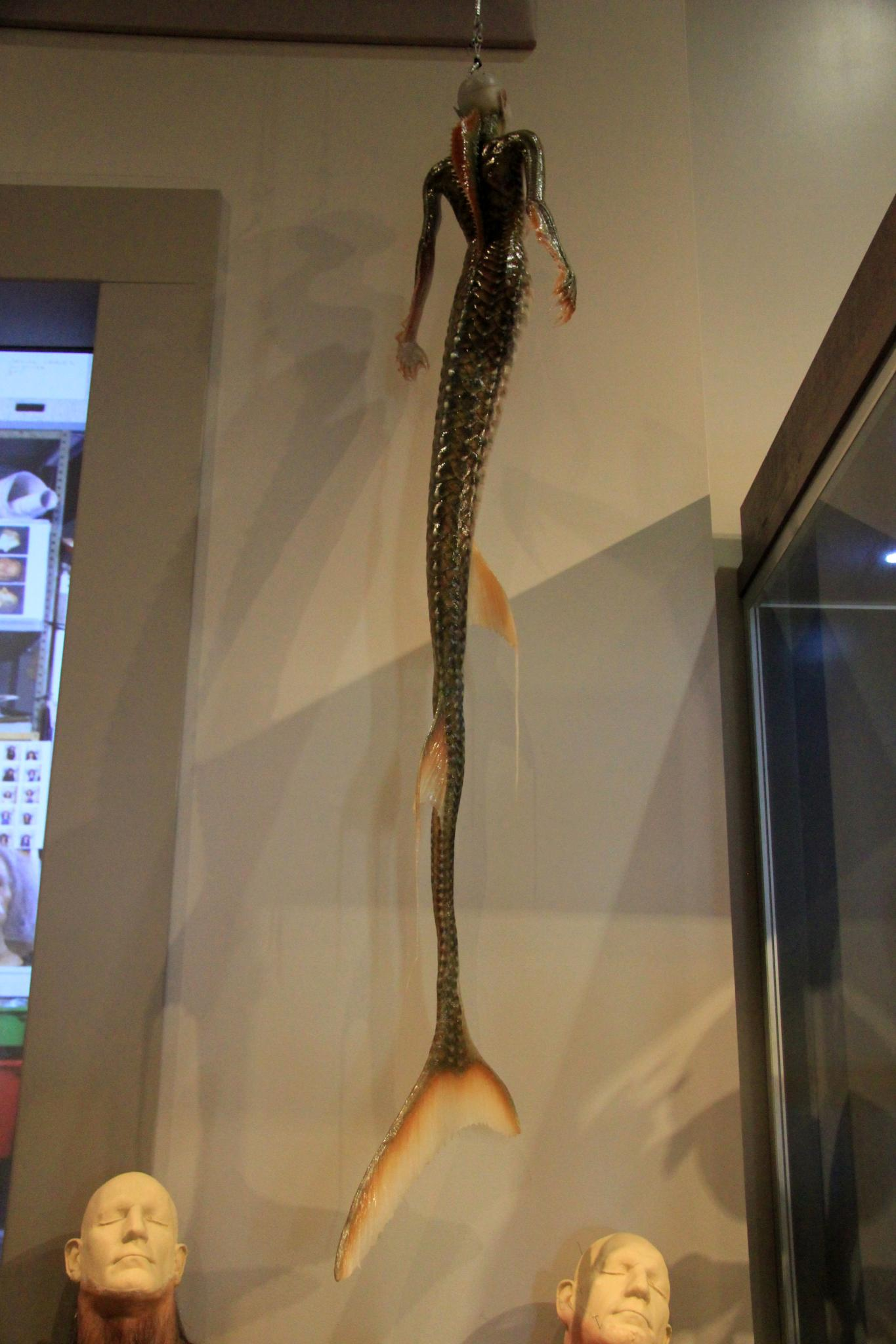 Warner Bros. Studio Tour London: The Making of Harry Potter.